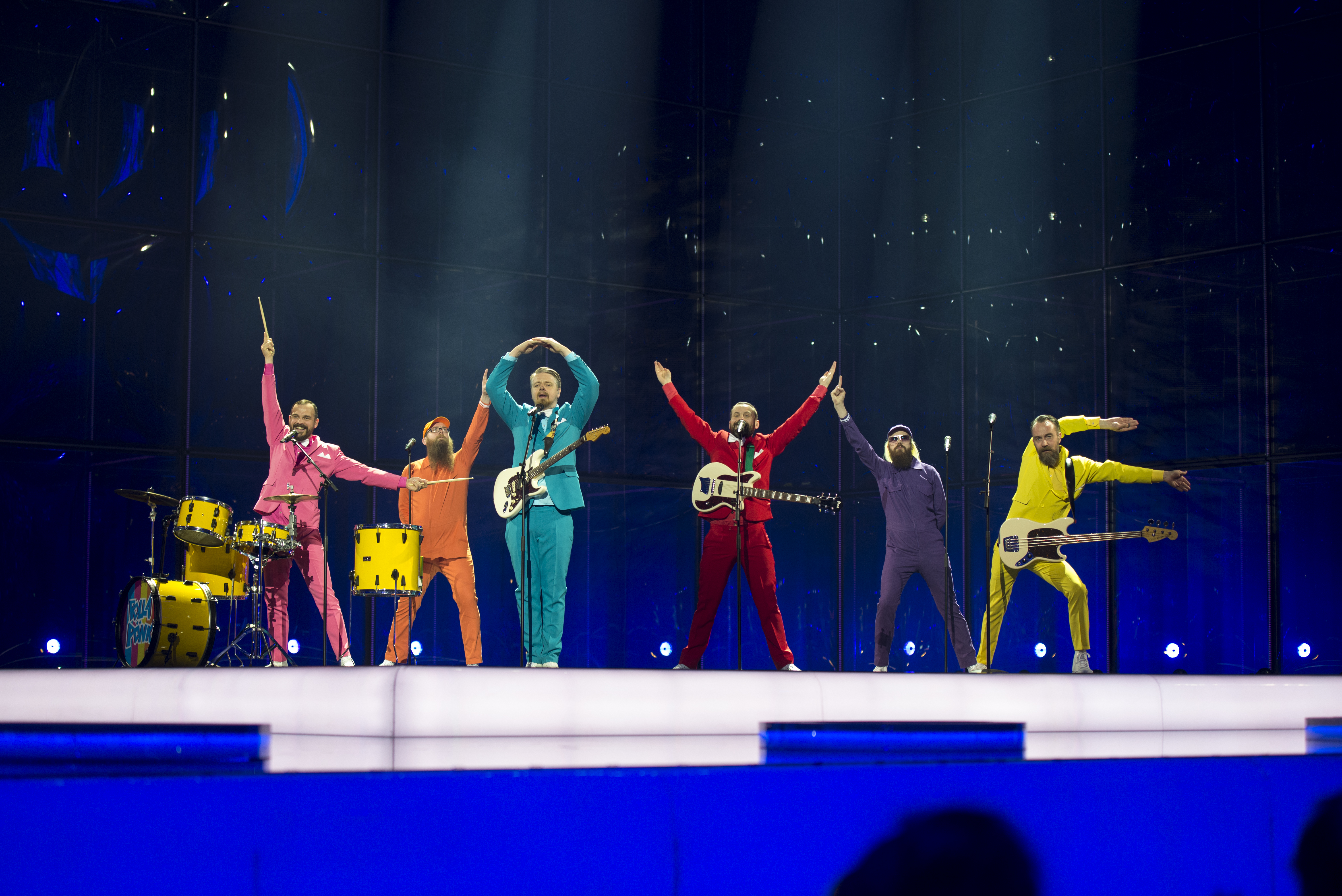 Pollapönk representing Iceland with the song "Enga fordóma" during the first dress rehearsal of the first semi final of the Eurovision Song Contest 2014 Copenhagen. (Help translate this text)